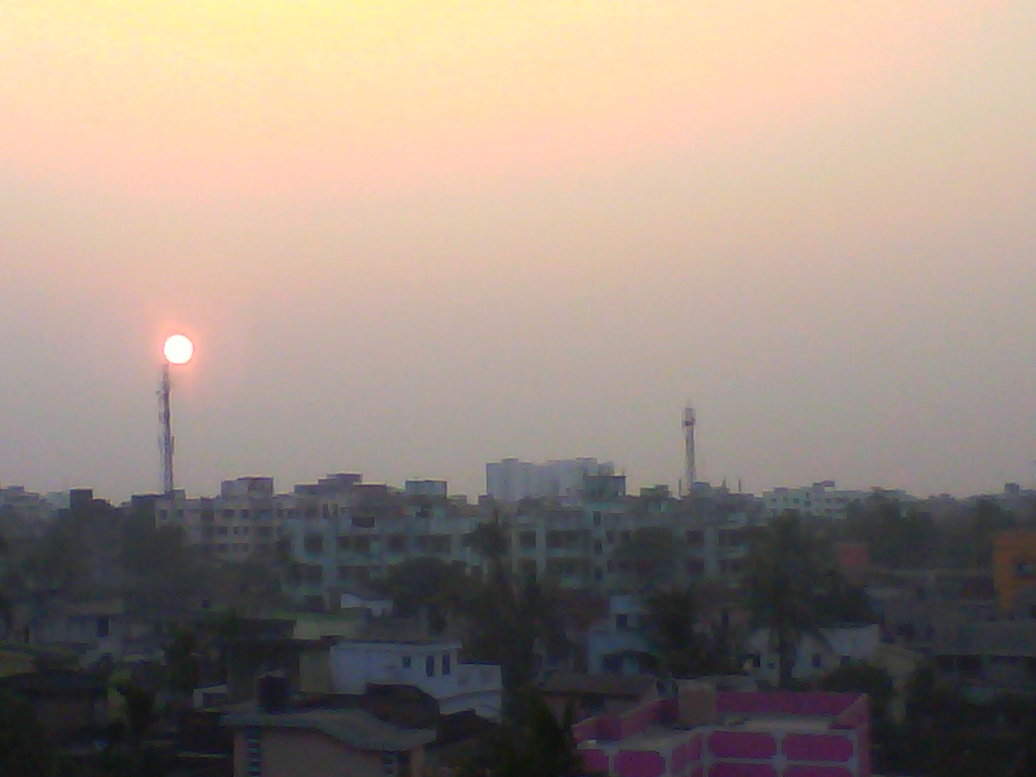 Skyline of Rishra